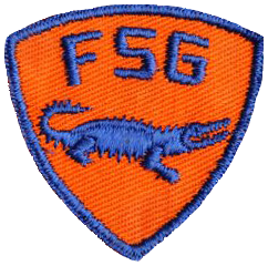 Florida State Guard insignia